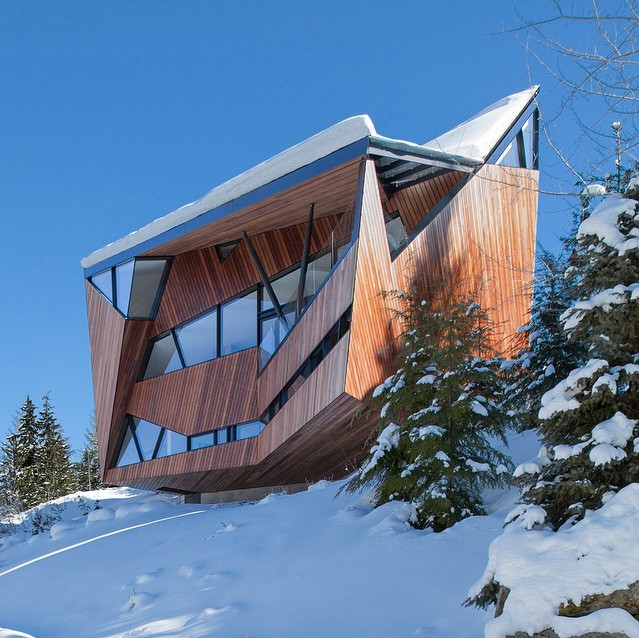 Exterior photo of the Hadaway House